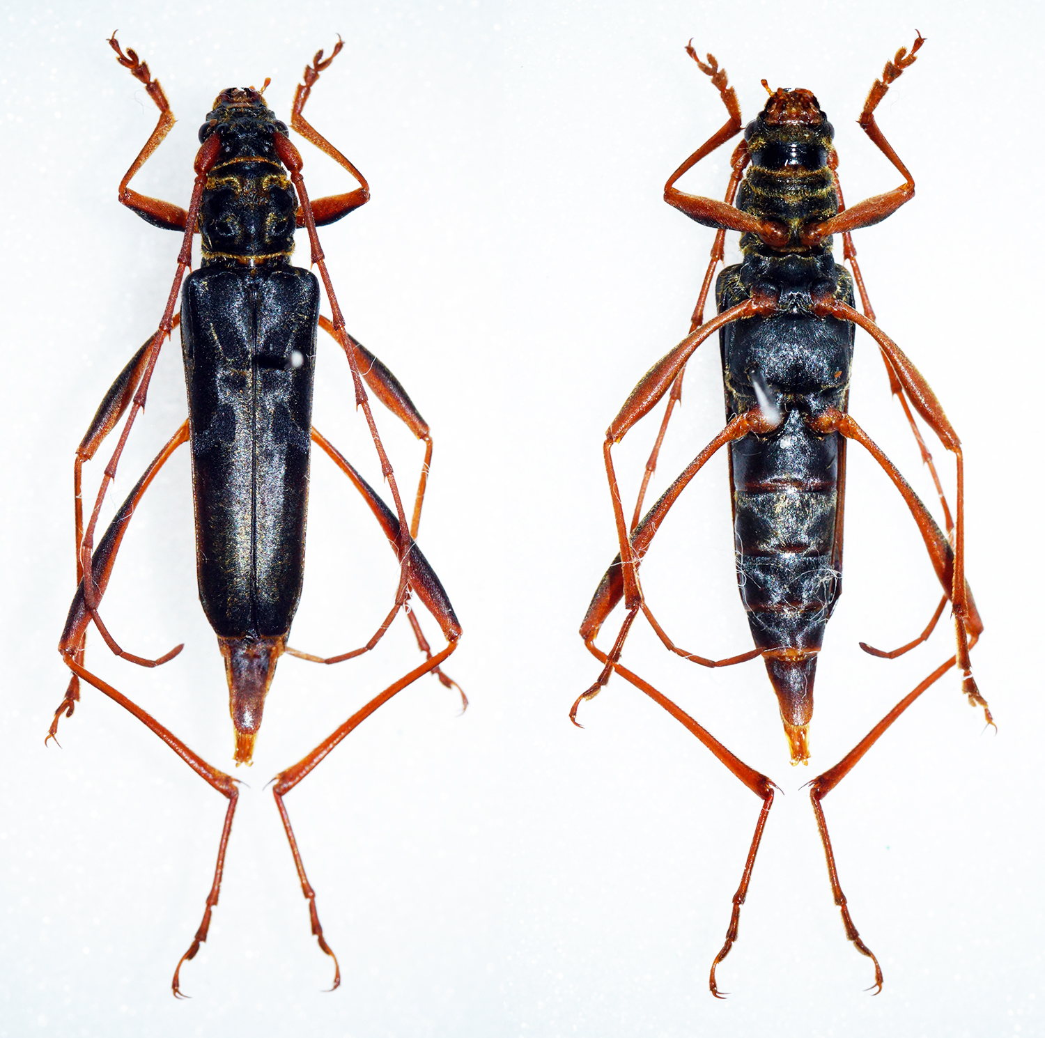 Chiang & Chen,1994 Sex: Male Data: 01-2014 - Mt Phu Pane - Hua Phan Prov - NE Laos Size: 16.5mm